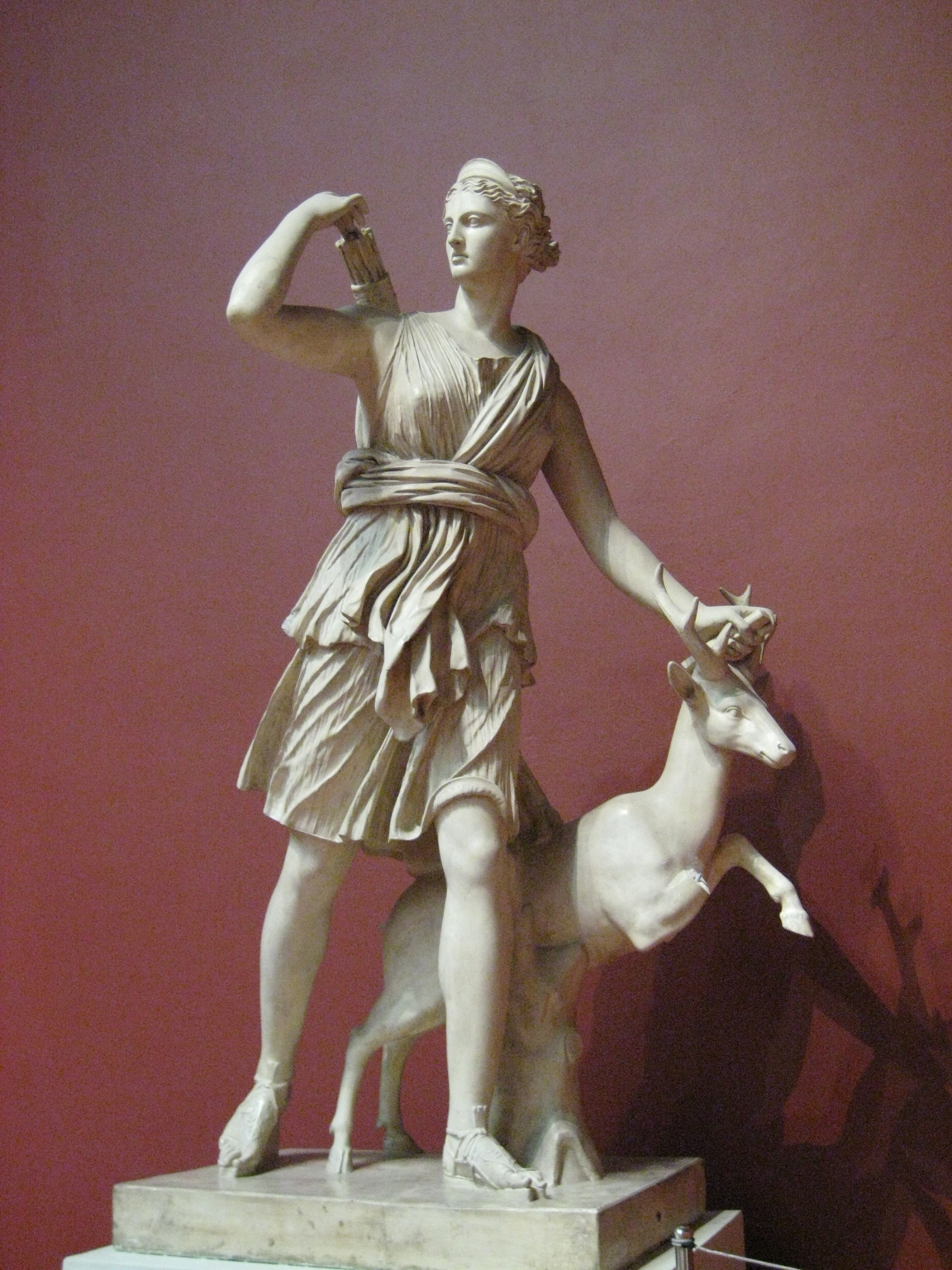 Diana of Versailles, plaster cast in pushkin museum